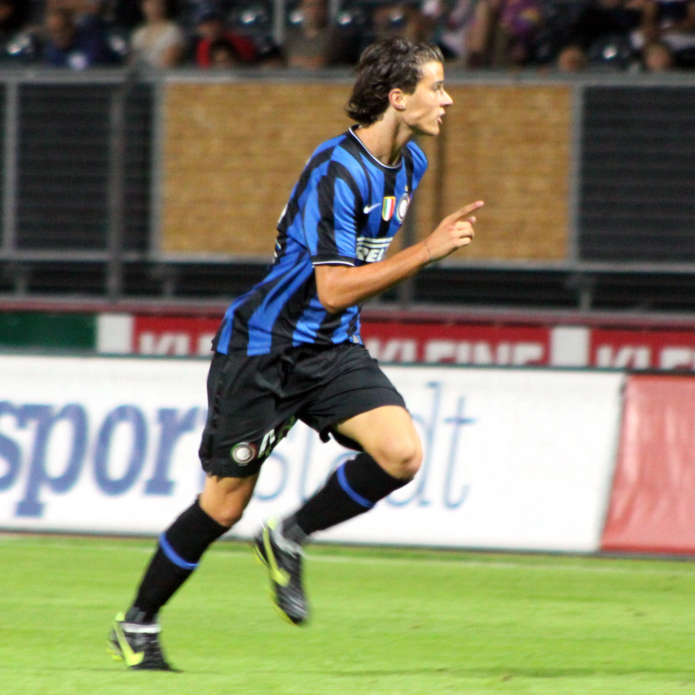 Lorenzo Crisetig - F.C. Internazionale Milano